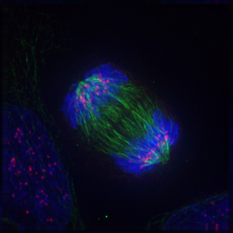 Cell into anaphase